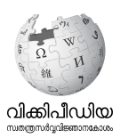 Malayalam Wikipedia logo 2.0